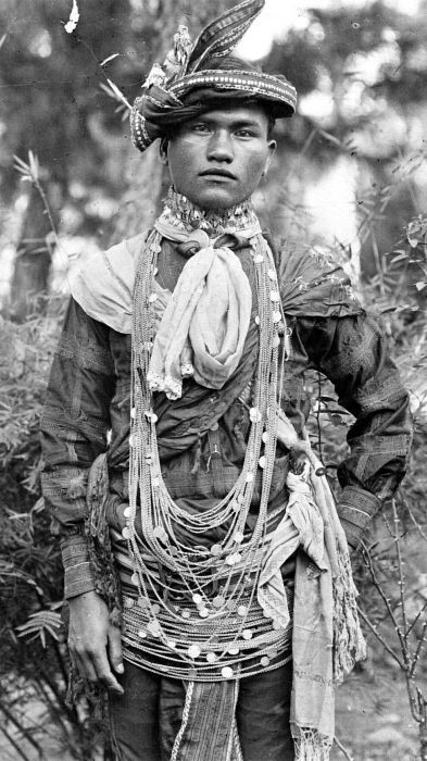 A Gayo man on Gayo Traditional Wedding dress